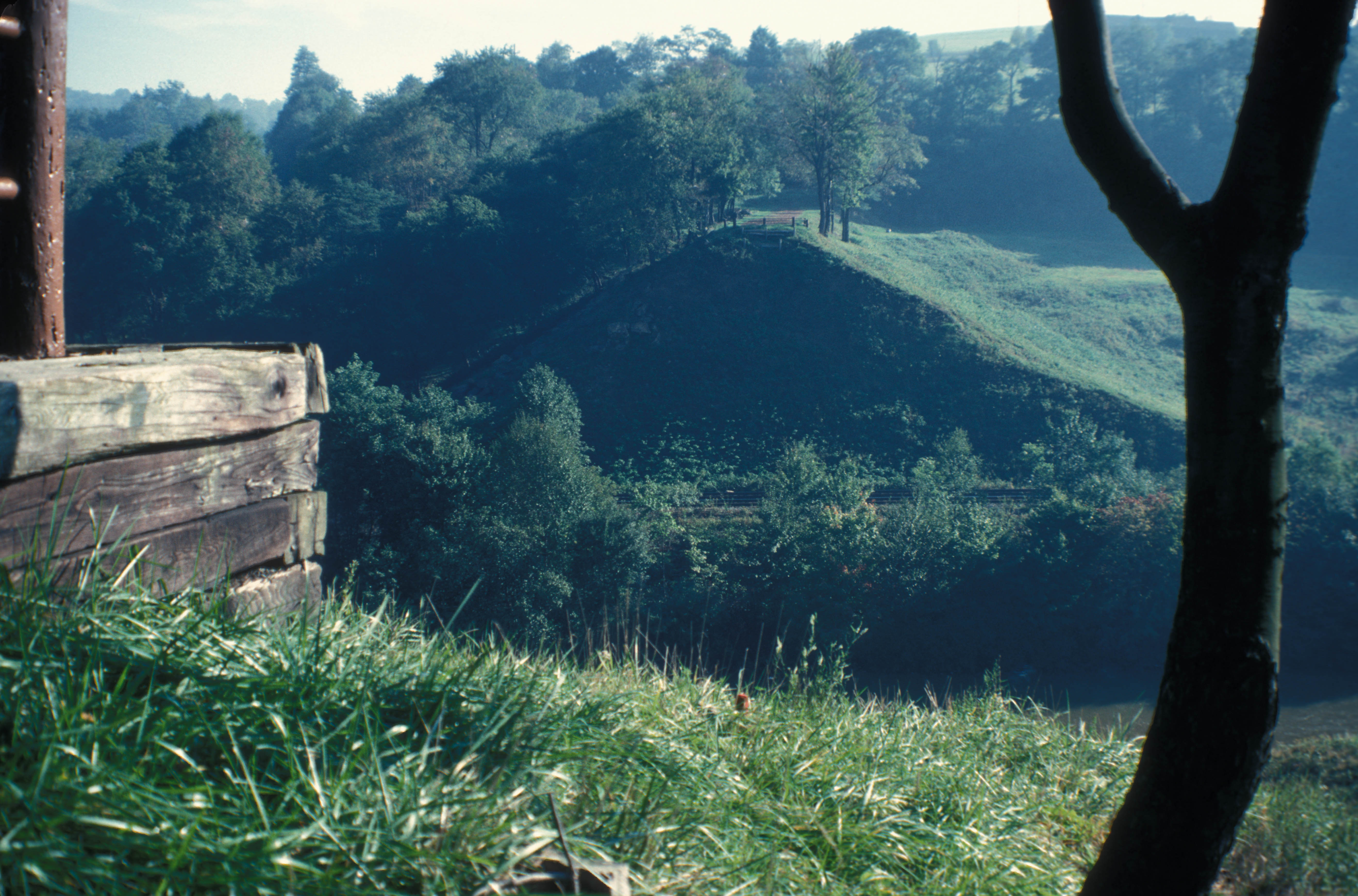 SOUTHERN AREA OF THE MEMORIAL WHERE THE DAM BROKE SENDING THE LAKE DOWN THE LITTLE CONNEMAUGH VALLEY KILLING 2200 PEOPLE